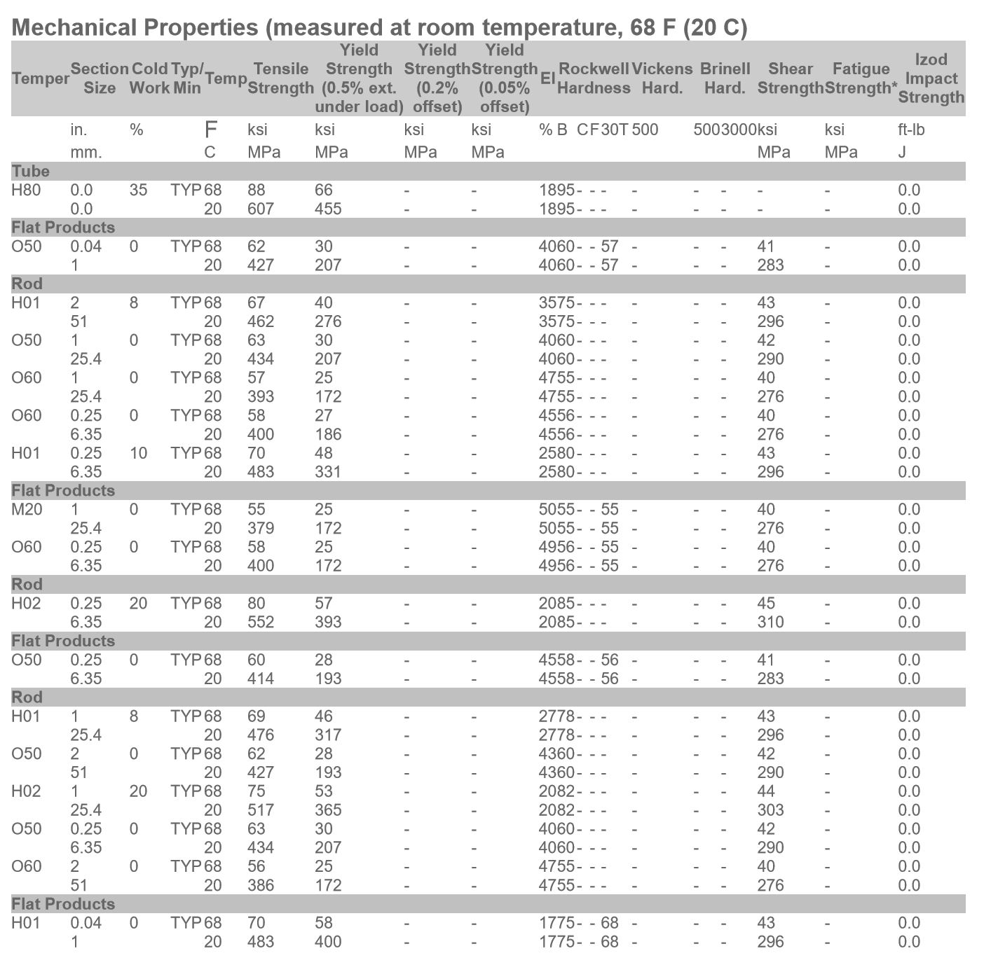 Mechanical properties of naval brass